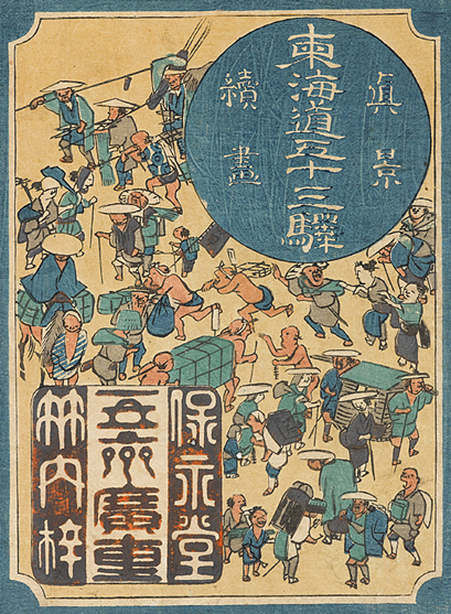 Illustration on the wrapper of the complete set of Hiroshige’s series „The Fifty-three Stations of the Tōkaidō“, published by Hoeidō (保永堂) in 1836